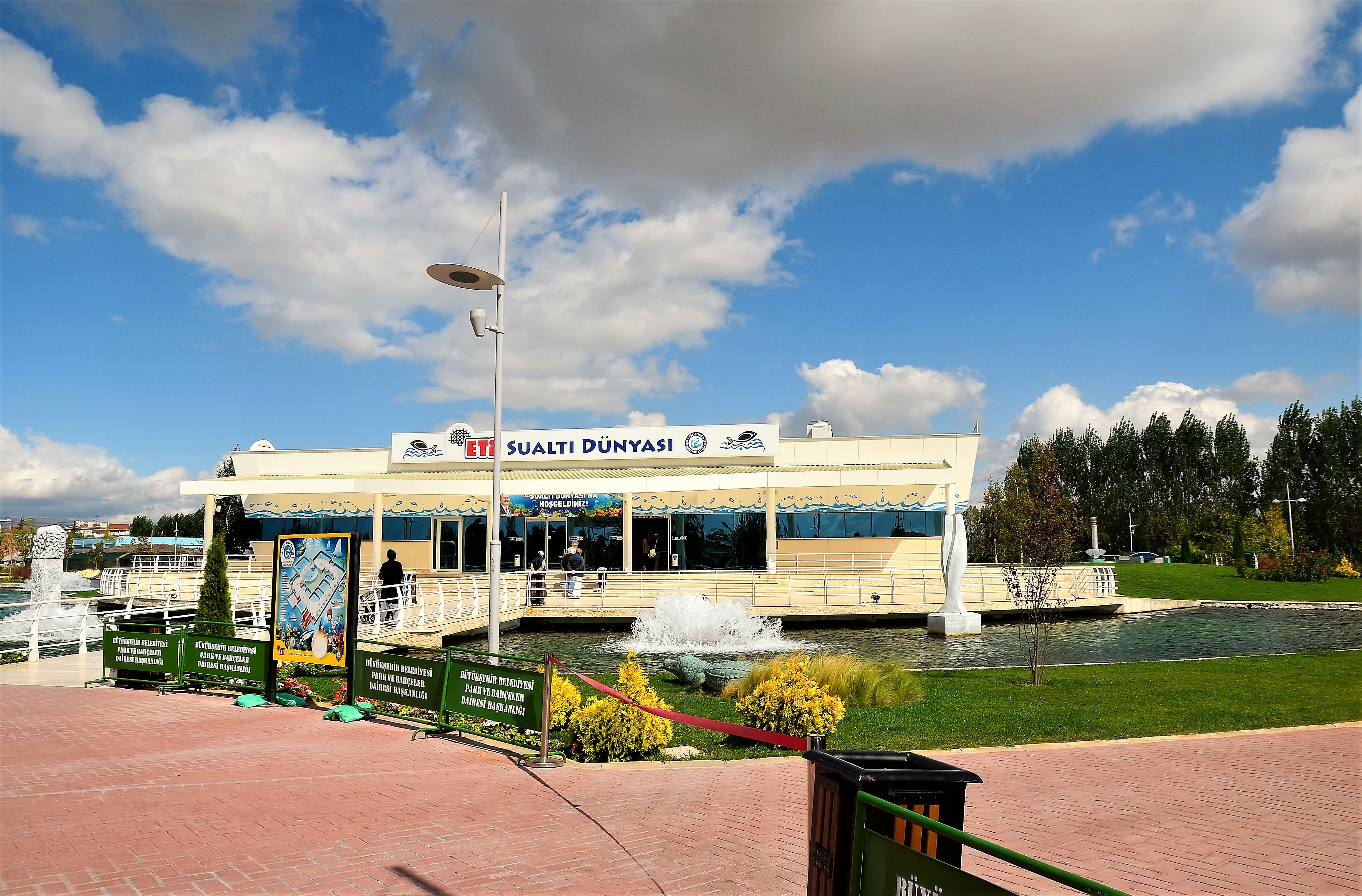 ETI Undersea World aquariım inside Eskişehir Zoo, Turkey.